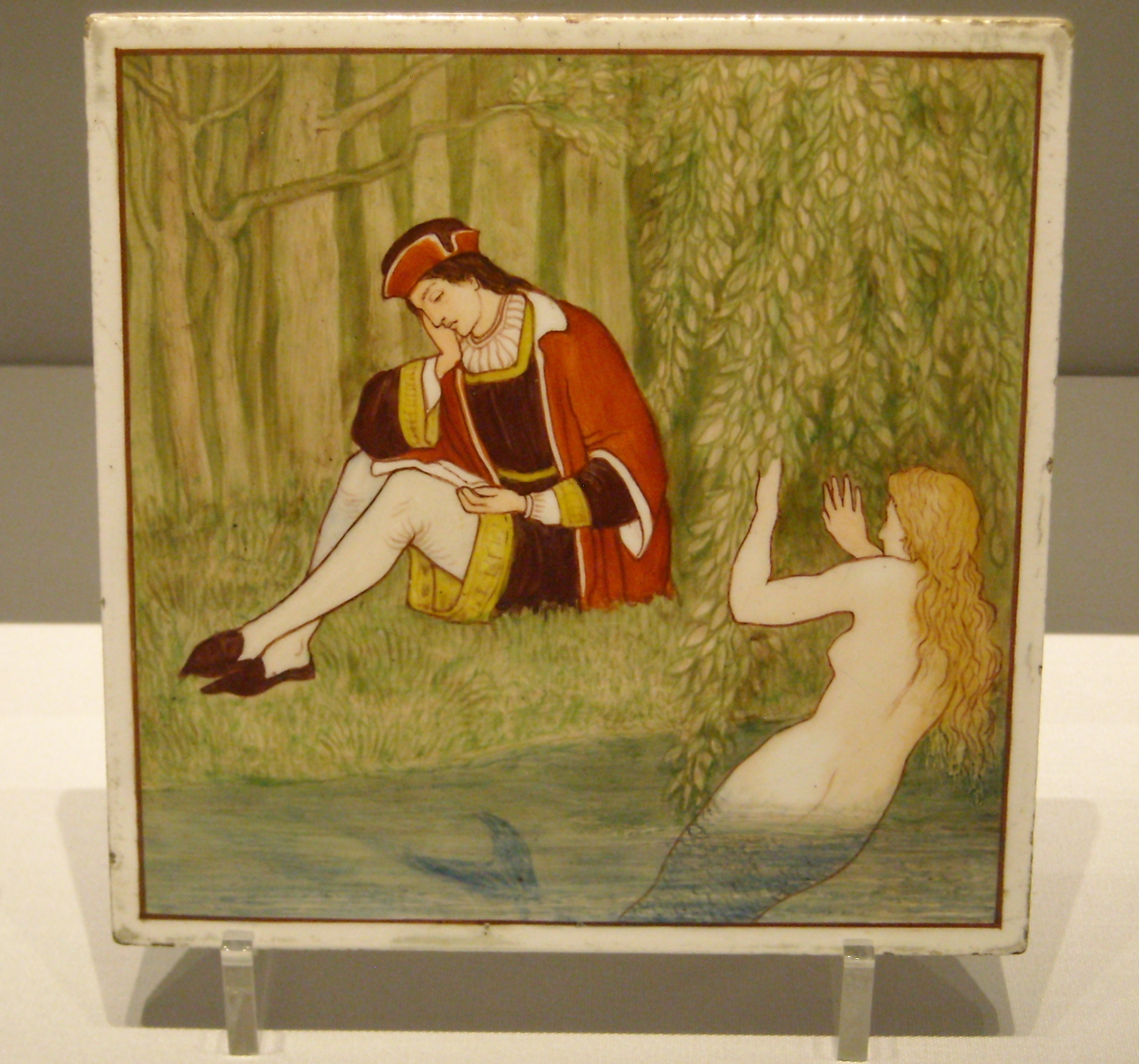 One of a series of tiles painted around 1867 by Henry Holiday (1839-1927) illustrating the story of The Little Mermaid. Tiles produced by Minton Hollins and Co.. On display at The Higgins museum and gallery, Bedford.